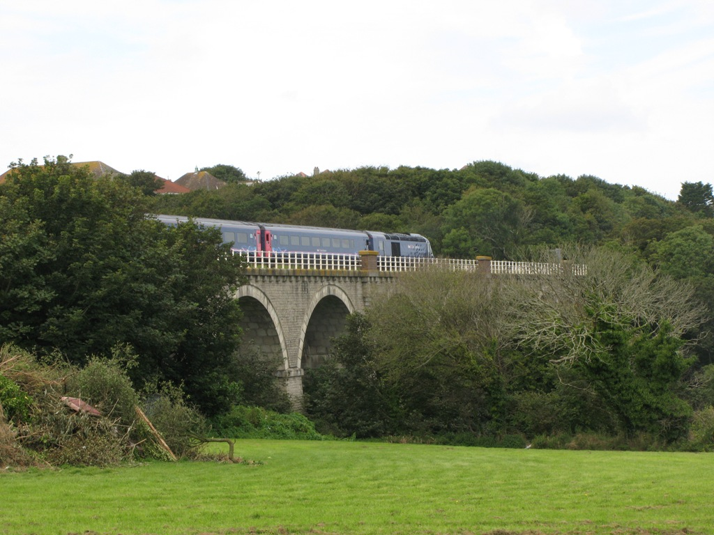 Trenance Viaduct, Newquay, Cornwall, United Kingdom. A First great Western servcie from Newquay to London Paddington passes over with power car 43138 at the rear.